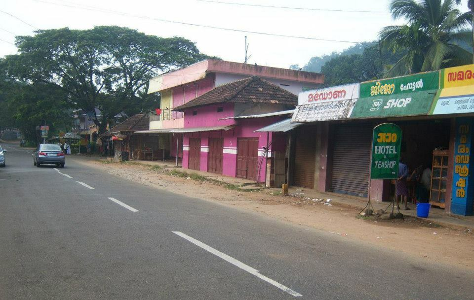 Uthimoodu City